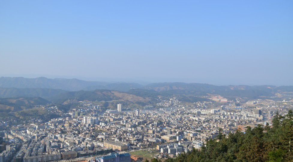 Liping_city,_guizhou,_china2014-1-18